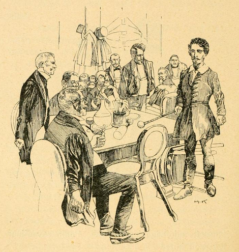 Sándor Petőfi in Nagykároly